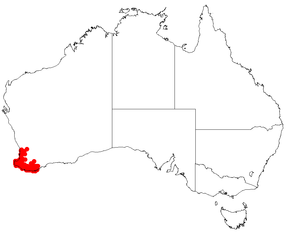 Hakea ceratophylla Occurrence data downloaded from Australasian Virtual Herbarium on 22 November 2018 using